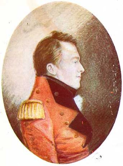 One of two portraits of Isaac Brock included in the 1908 book "The Story of Isaac Brock" by Walter R. Nursey.